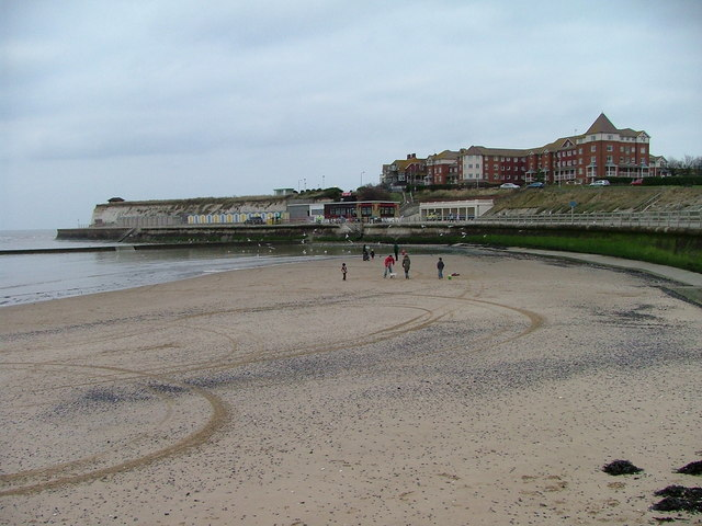 Westgate Bay, Westgate-on-Sea, Kent, England